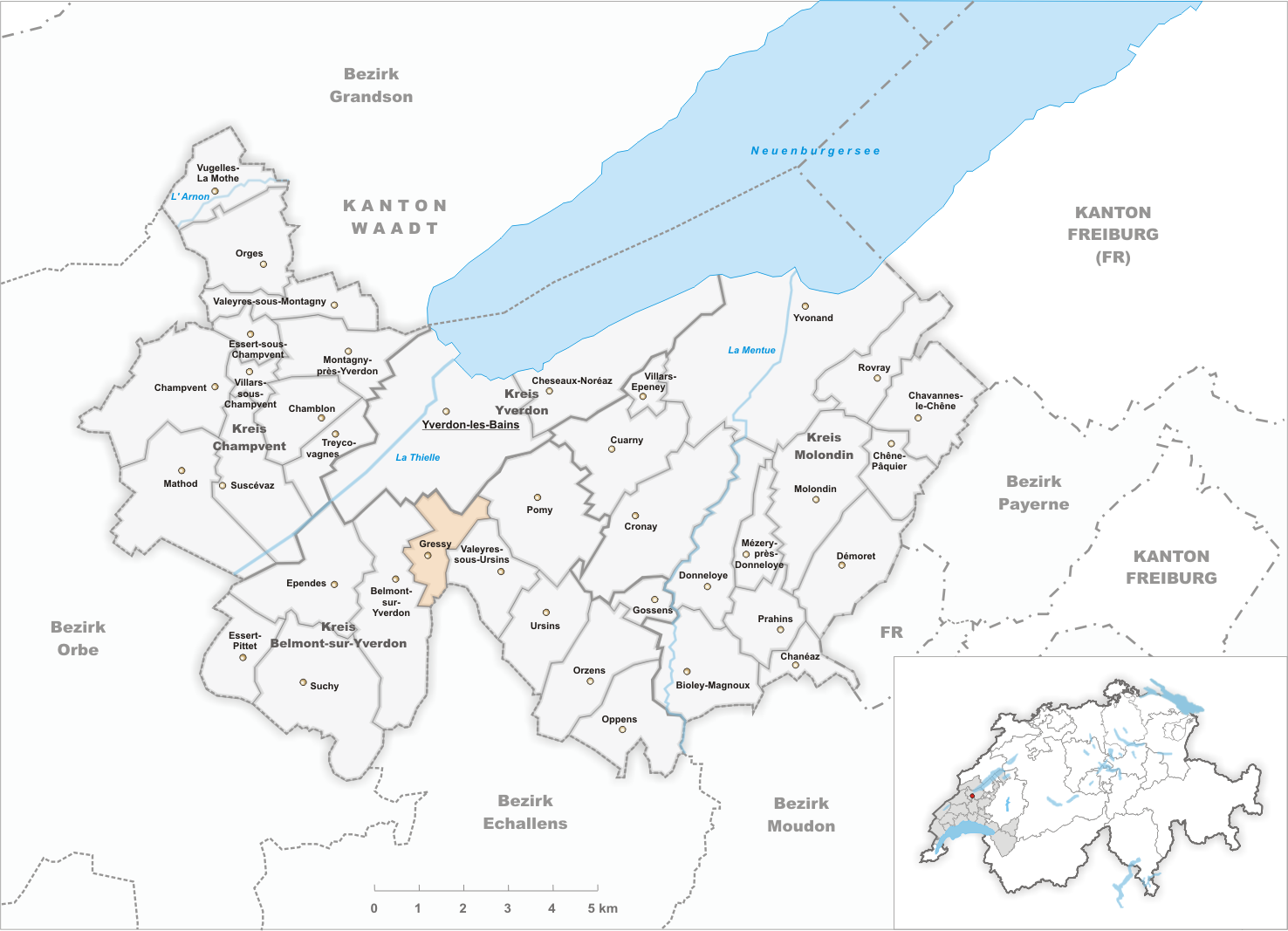 Municipality Gressy